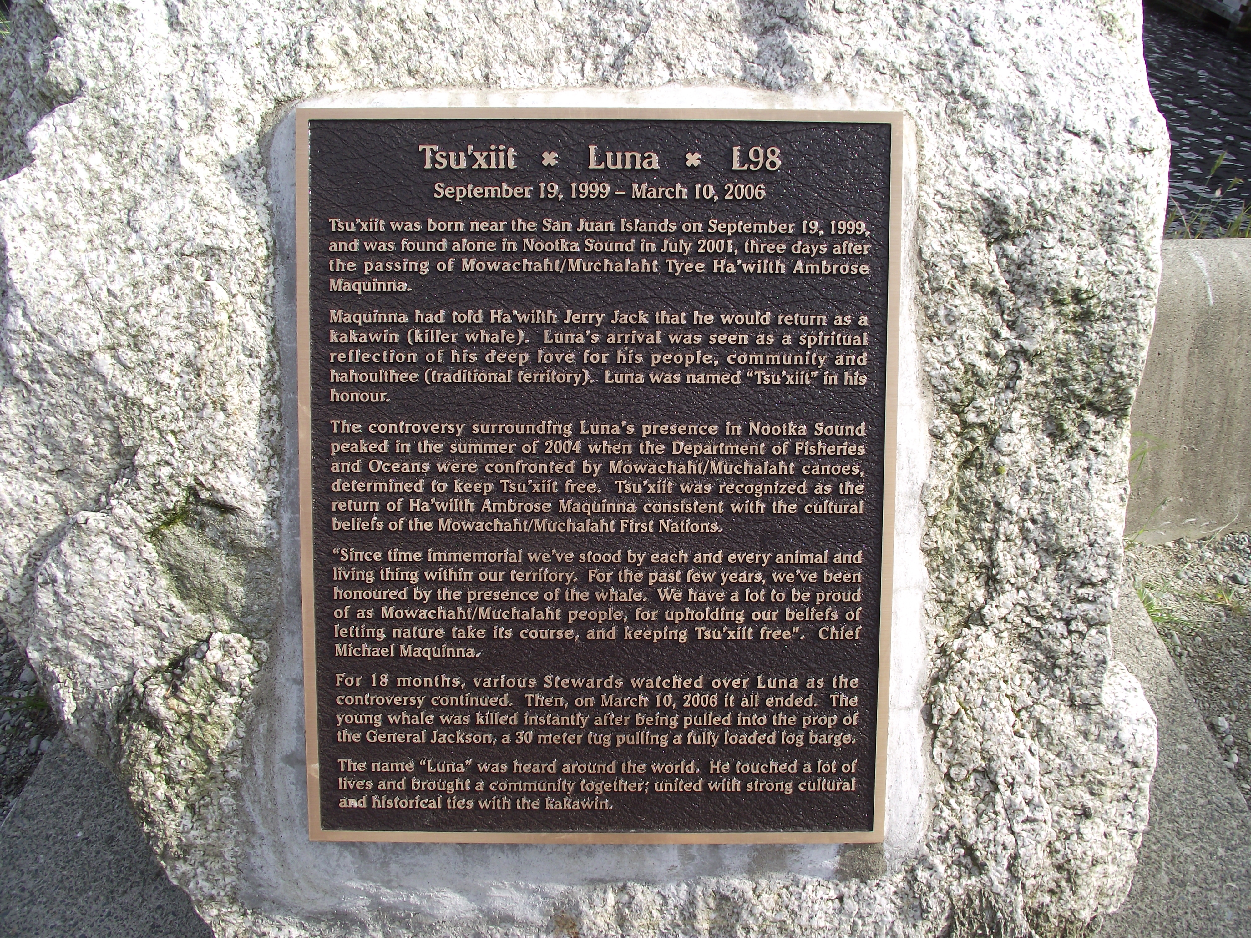 Located at Muchalat Inlet, Nootka Sound (near Gold River, British Columbia), describing the Luna incident.